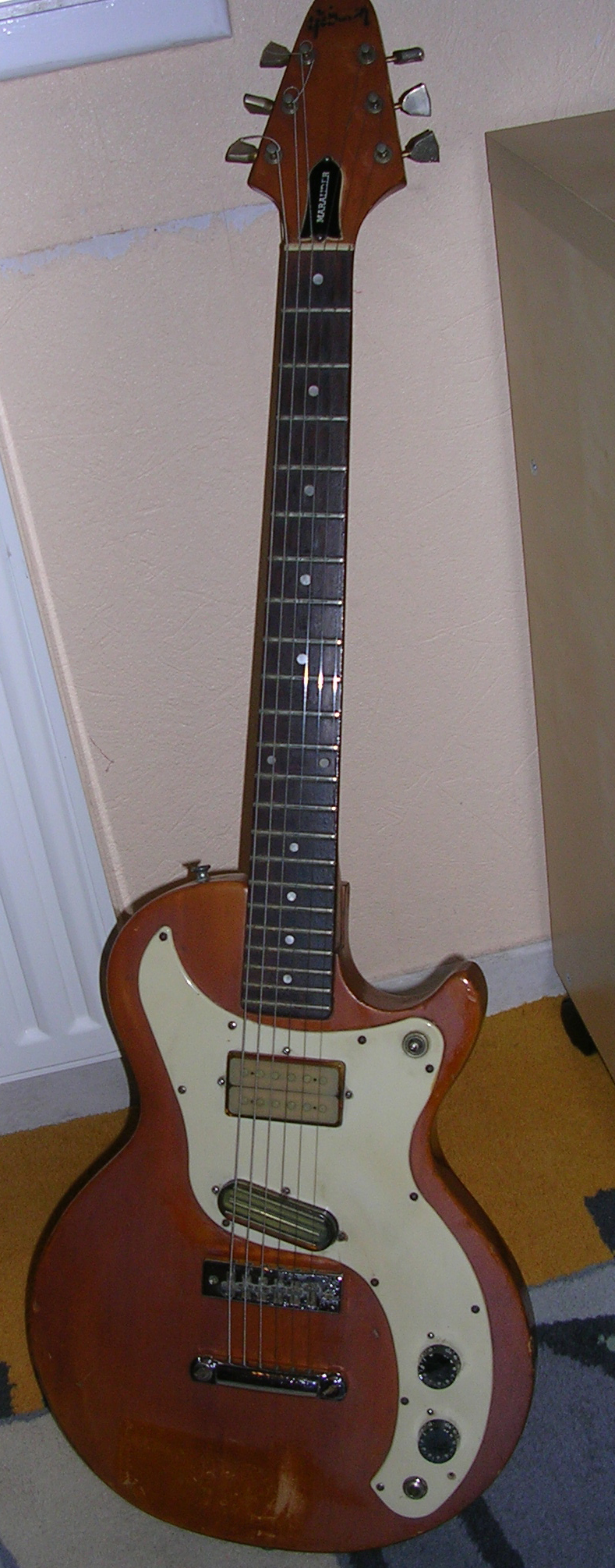 Gibson Marauder electric guitar